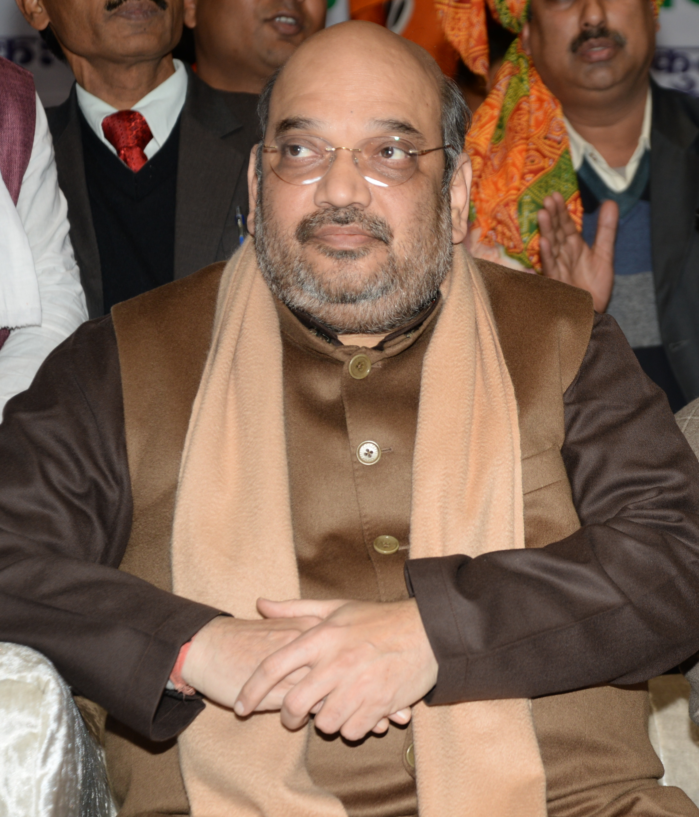 [ L to R ] Shri. Amit Shah, President of the Bharatiya Janata Party with Dr. Udit Raj, National Chairman, All India Confederation of SC/ST Organizations/MP (Lok Sabha), during dalit rally at Talkatora Stadium, New Delhi on 16.01.2015